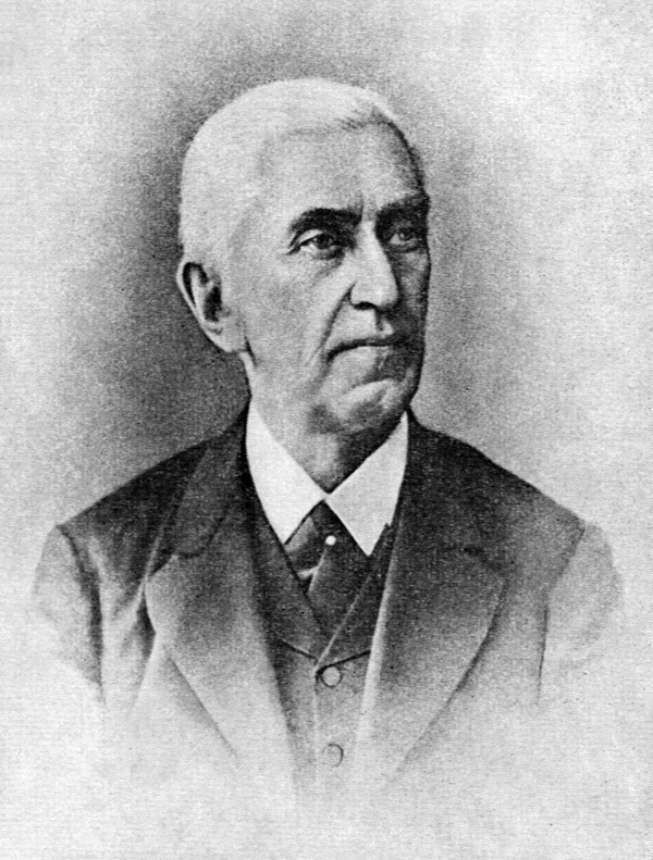 Russian pianist and teacher Nikolai Zverev (1832—1893)